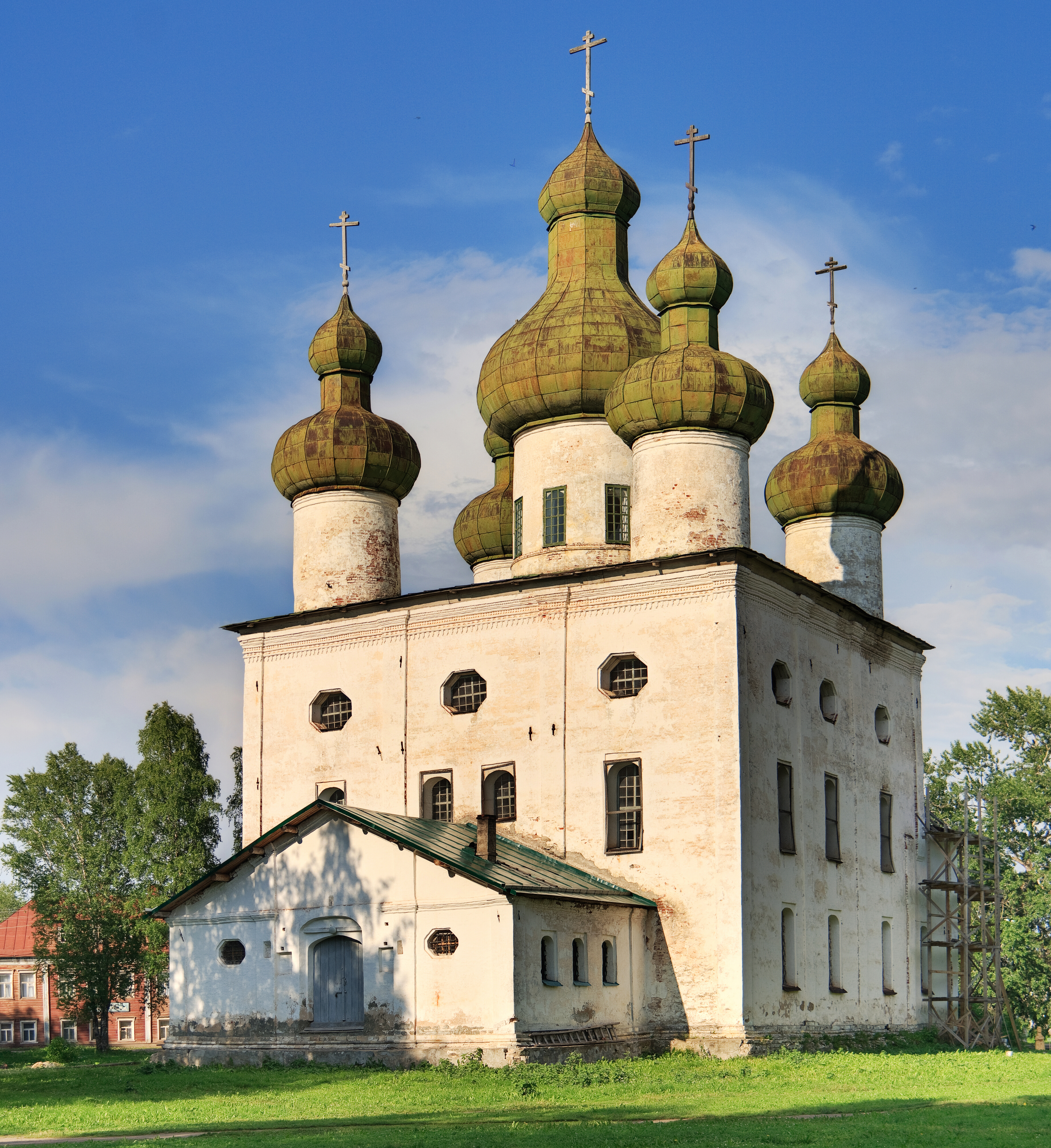 Saint John the Baptist Church, Kargopol, Arkhangelsk Oblast, Russia